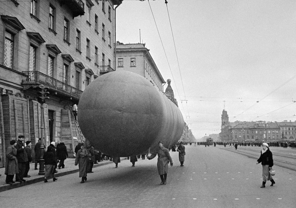 “Aerostats on Nevsky Prospekt, Leningrad”. Gas holder on Nevsky Prospekt, Leningrad.